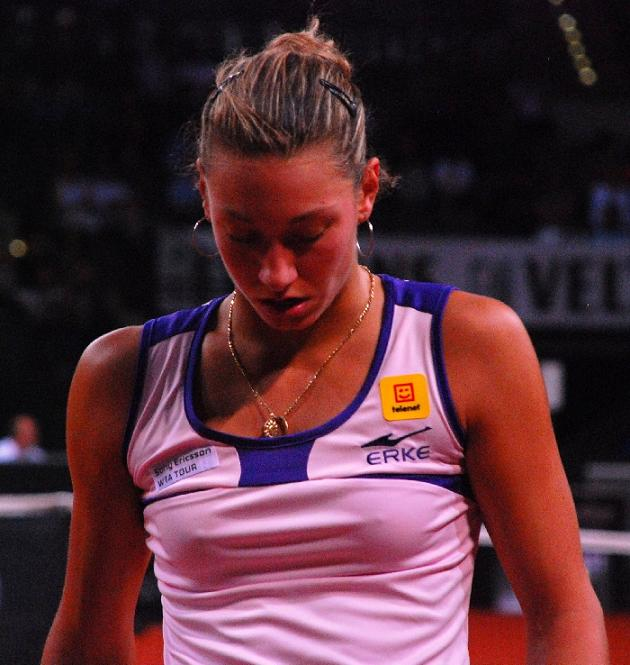 Yanina Wickmayer facing Justine Henin at the 2010 Stuttgart Porsche Grand Prix